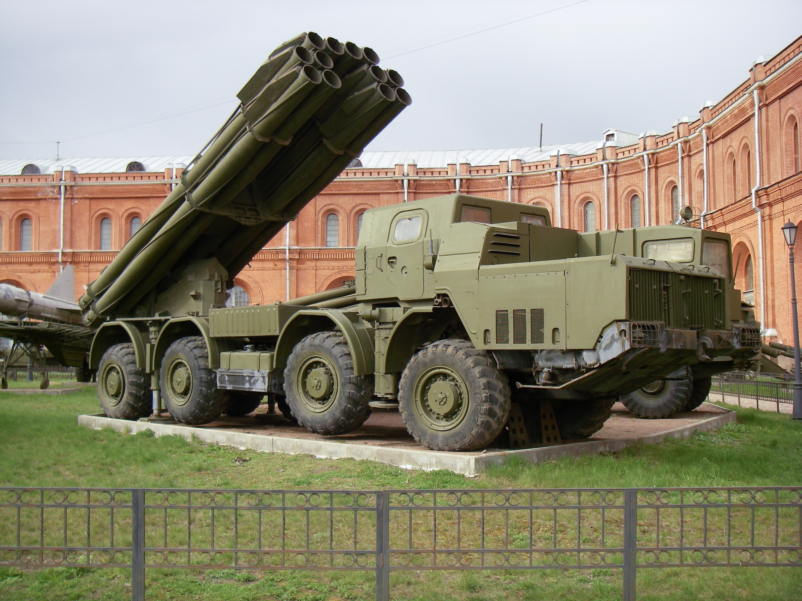 Launcher 9A52 of 300-mm multiple rocket launching system 9K58 «Smerch» in Saint-Petersburg Artillery museum